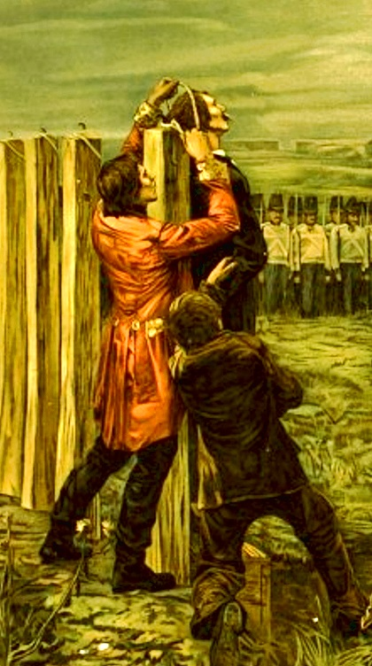 Execution on the hanging pole as depicted in the painting "The Martyrs of Arad (Sixth of October)" by János Thorma